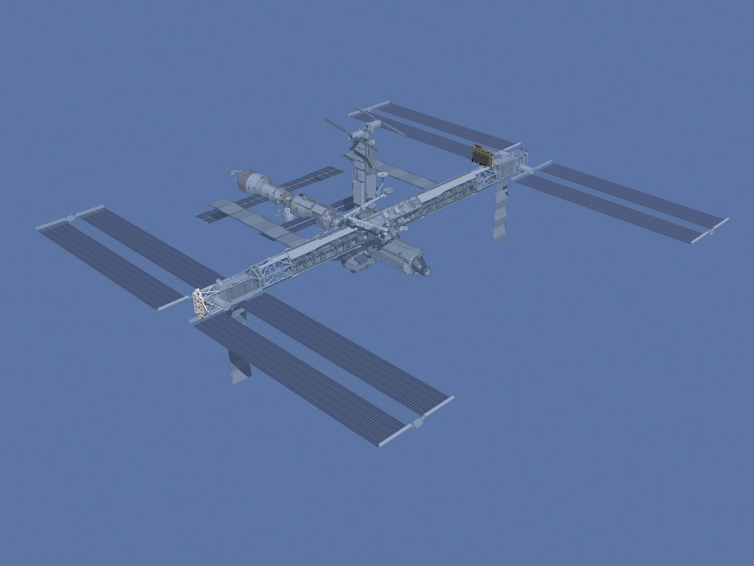 JSC2006-E-43502 (October 2006)